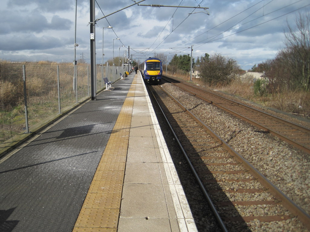 Newcraighall railway station, Edinburgh. Opened in 2002 by Railtrack, this station is situated on the former Edinburgh-Carlisle 'Waverley' route, which had closed in 1969, although there hadn't previously been a station here. View north-west towards Brunstane and Edinburgh. When this image was taken, it was the terminus of a cross-city passenger service.